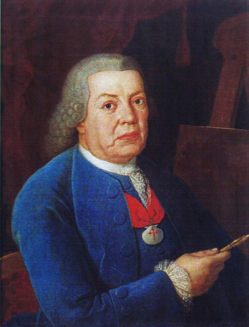 Self-portrait of Francisco Vieira Lusitano (c. 1774), copied by Joaquim Manuel da Rocha.